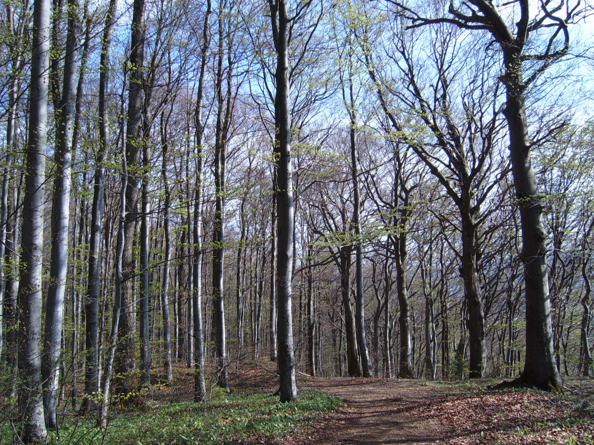 Fagus sylvatica forest on Schinberg, Fricktal, Switzerland